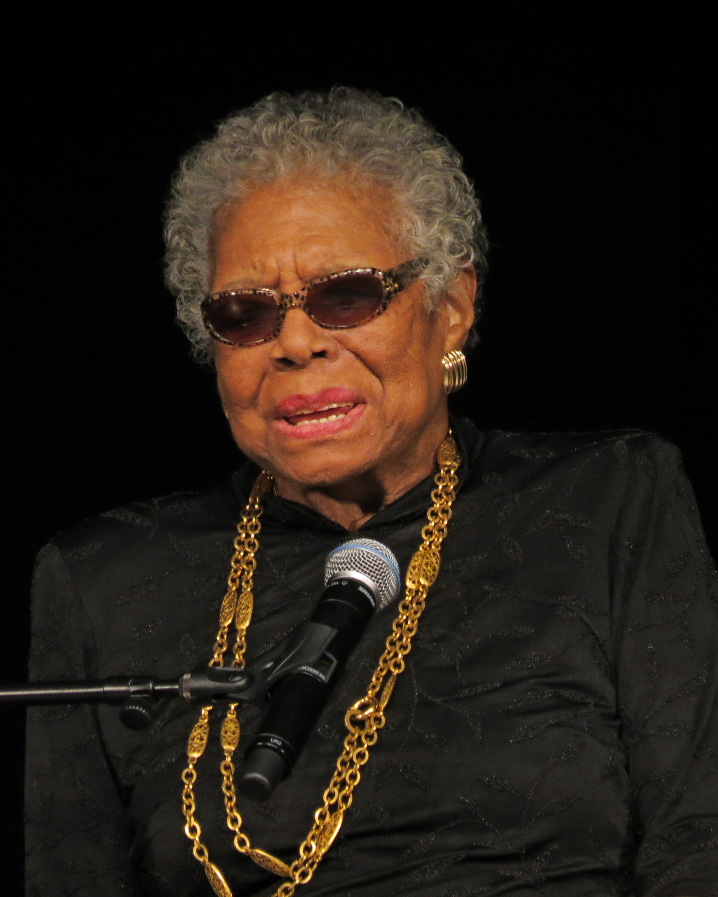 Maya Angelou visits York College Feb 2013